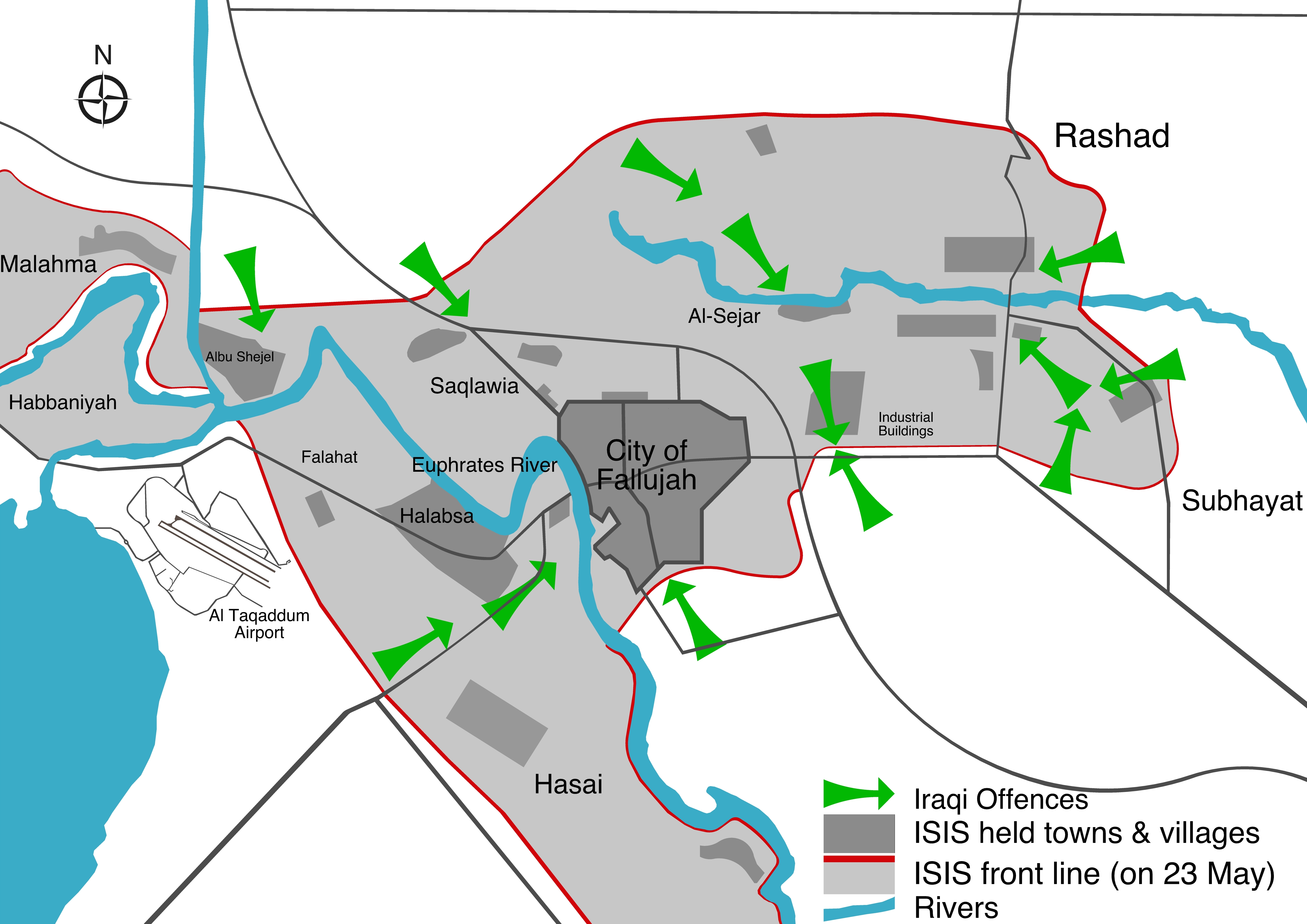 Digital rendering of the battle of File:Fallujah 2016.jpg, Google maps, using Google Sketchup.